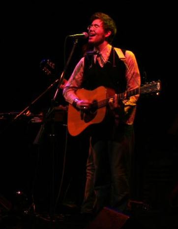 Elvis Perkins performing live at Joe's Pub in New York City on March 1, 2007.